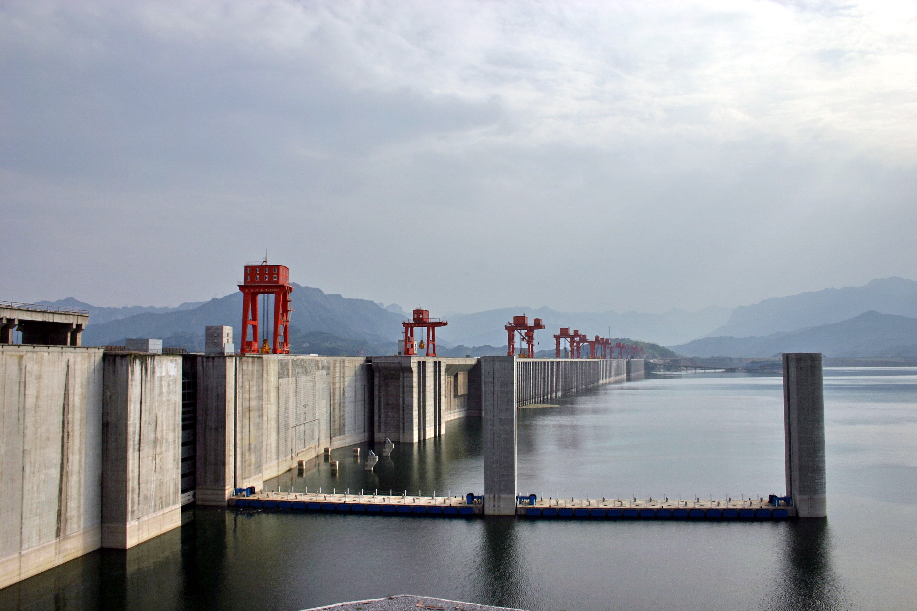 Three Gorges Dam spans the Yangtze River in Sandouping, Yichang, Hubei, China, , 3. April 2007